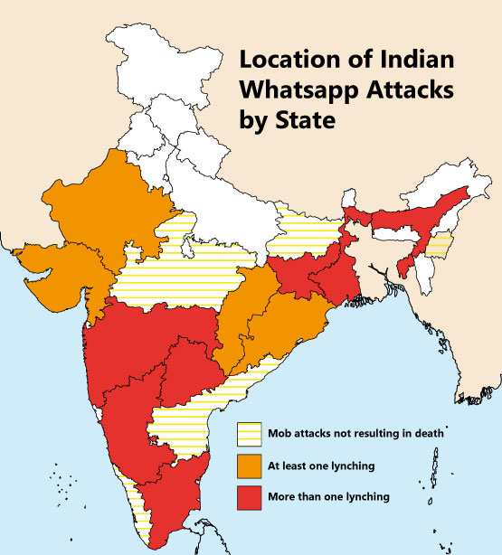 Map of India showing states in which lynchings and mob attacks related to the Indian Whatsapp Lynchings have take place as of 31 July 2018.